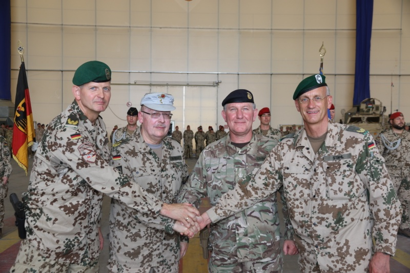 German Army Brig. Gen. Gerhard Ernst-Peter Klaffus (from left), German Army Lt. Gen. Erich Pfeffer, British Army Lt. Gen. Richard Cripwell and German Army Brig. Gen. Wolf-Jürgen Stahl pose for a photo after the transfer of authority ceremony at TAAC-North on August 21, 2018 in Mazar-e Sharif, Afghanistan. Klaffus is the incoming commander for TAAC-North.